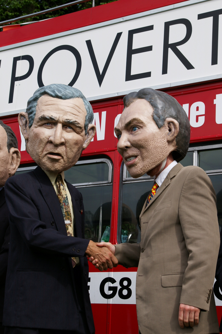 Caricatures of George W. Bush and Tony Blair shake hands in front of a Make Poverty History bus.George & Tony